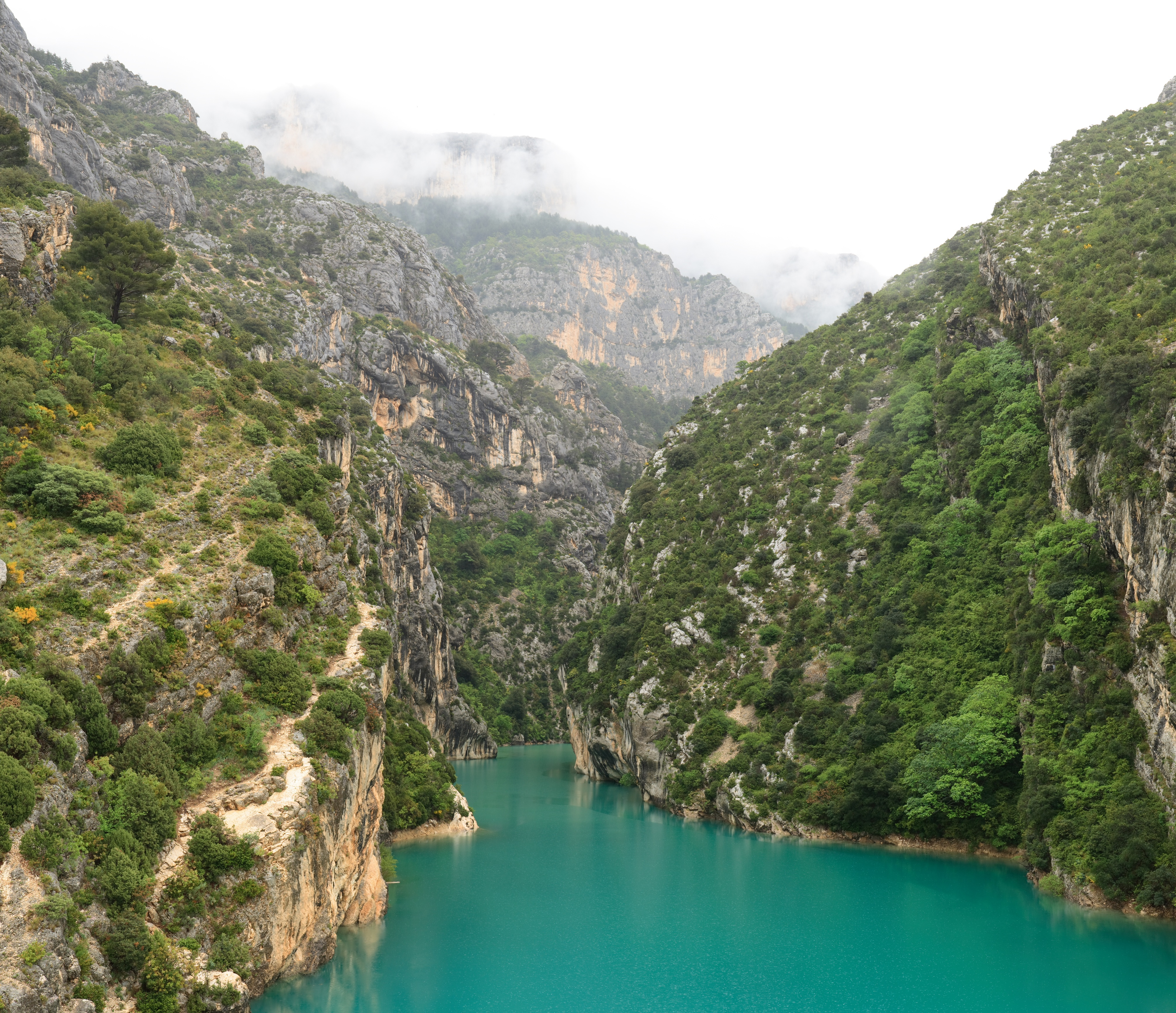 Entrance of the Verdon Canyon, seen from Bridge of Galetas, on the Sainte-Croix lake, in the South-East of France. This picture is a 4x3 pictures panorama stitched with Hugin.